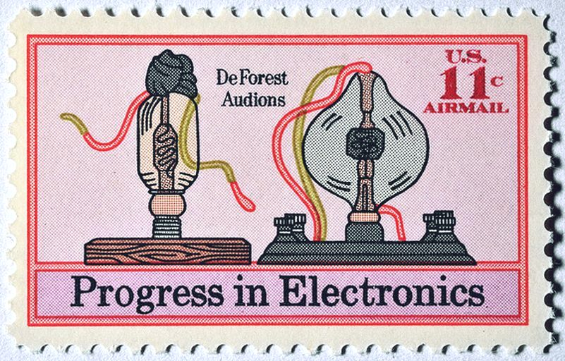 July 10, 1973 11¢ Multicolored[PERF 1] Progress in Electronics C86 34192